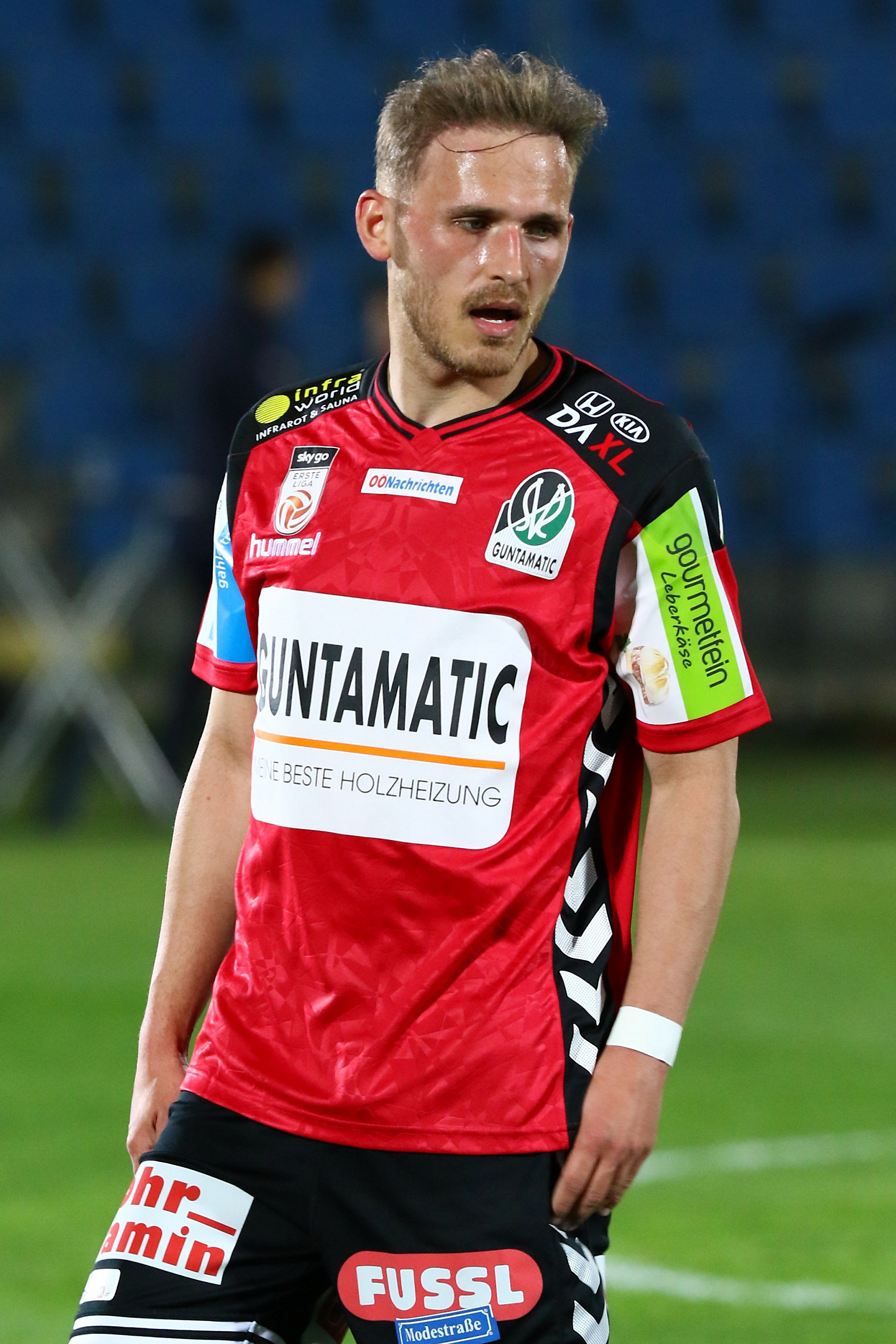 Football-championship Erste Liga 2017–18 - SC Wiener Neustadt (white shirts) vs. SV Ried (red shirts) 1-0. – The photo shows Marcel Ziegl